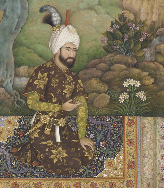 Shah Tahmasp in the mountains.